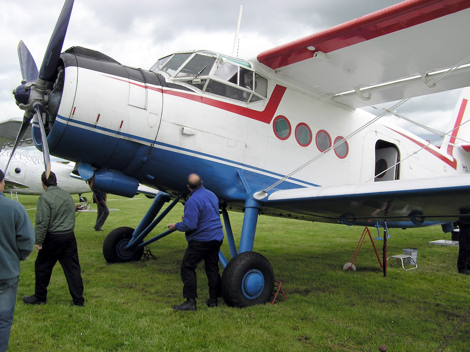 Private Antonov AN-2TP (HA-MKF) at Hullavington Airfield, Wiltshire, England. This is a flying aircraft, not a museum exhibit. Photographed by Adrian Pingstone in May 2005 and placed in the public domain.